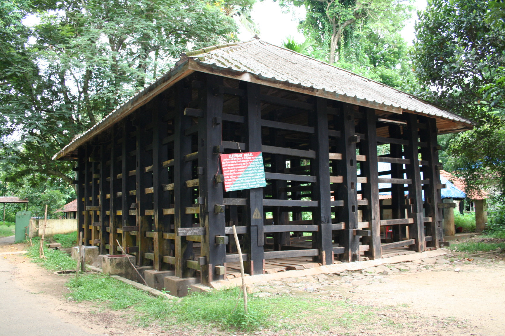 elephant cradle - kodanadu